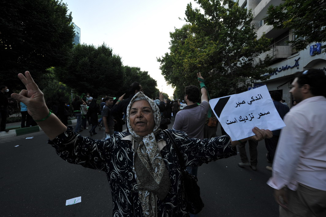 A protester holds a sign reading "Be patient! The dawn is near..."